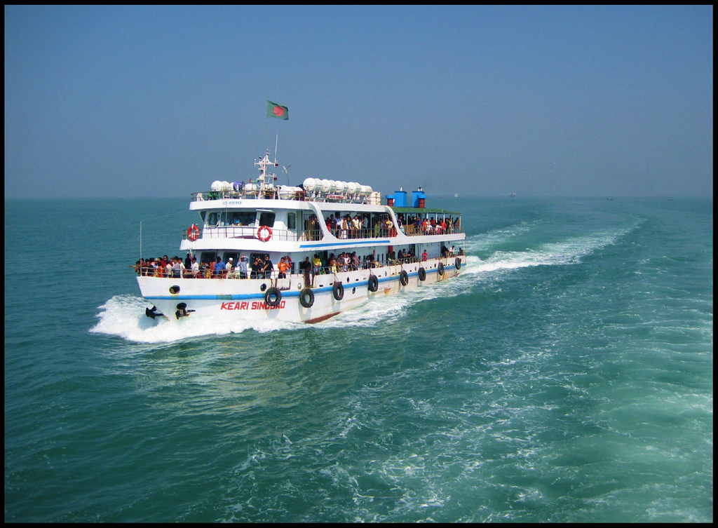 Keari Sinbad, a boat traveling in the Bay of Bengal, near Bangladesh Built 2004 by Western Marine Shipyard Ltd. Hull No.: WMShL-0103PV Length: 36.58 m Beam: 7.62 m Depth: 2.97m Main Engine: 2 X 365 HP Speed: 12.0 Knot Passengers: 246 History: First Sea Going (Classed) Passenger Ship in Bangladesh. Designed by Western Marine Shipyard Ltd. Bangladesh Design, construction, supervision and classification under Germanischer Lloyd (GL) Hamburg, Germany GL Registration NO.: 110943 Class Notation: +100 A5 K20 Passenger Ship/ +MCKeari Sinbad